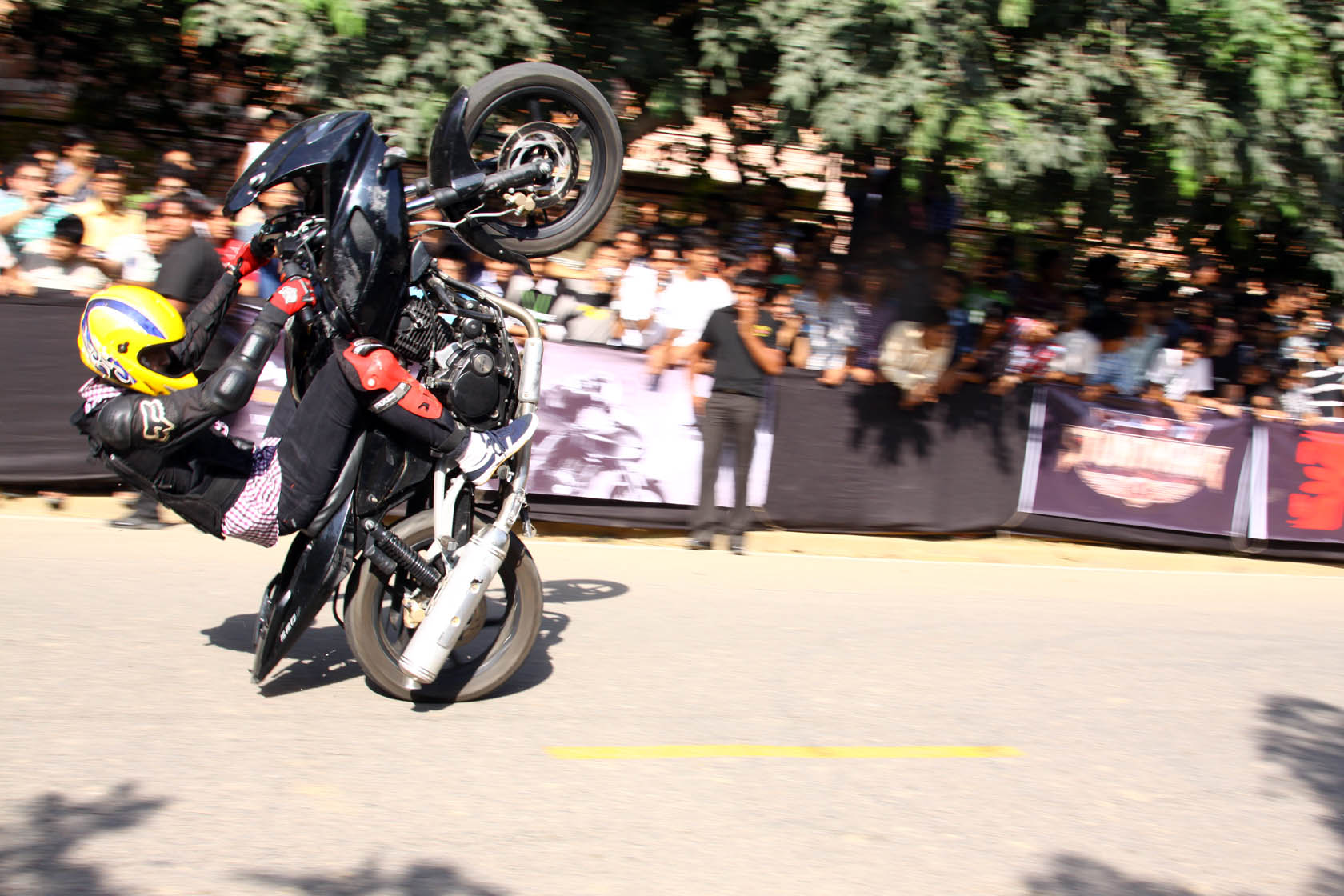 Rendezvous2010